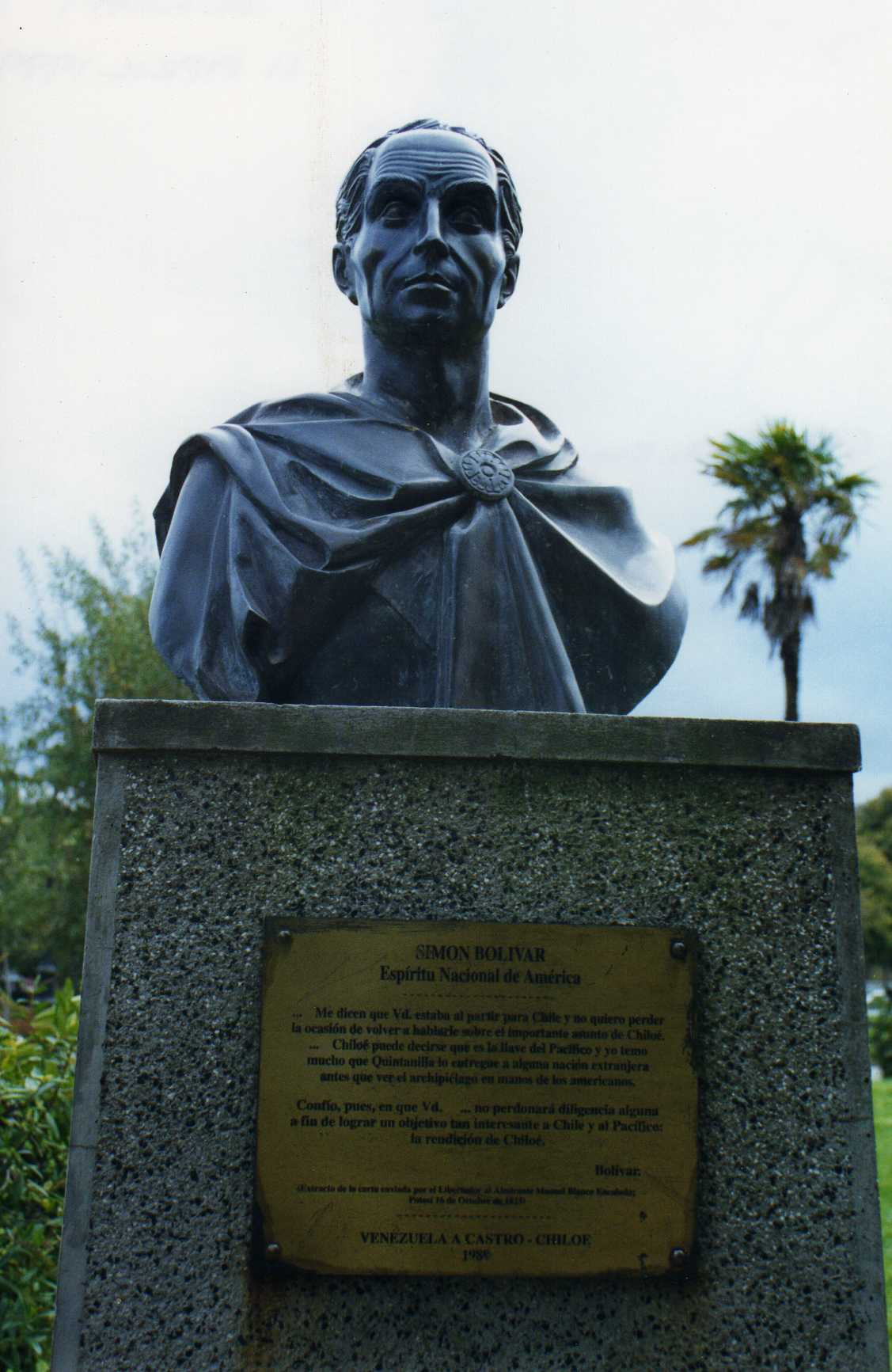 From Wikipedia - Simón José Antonio de la Santísima Trinidad Bolívar y Palacios Ponte y Blanco, commonly known as Simón Bolívar (July 24, 1783 - December 17, 1830) was a Venezuelan military and political leader. Together with José de San Martín, he played a key role in Hispanic America's successful struggle for independence from the Spanish Empire.